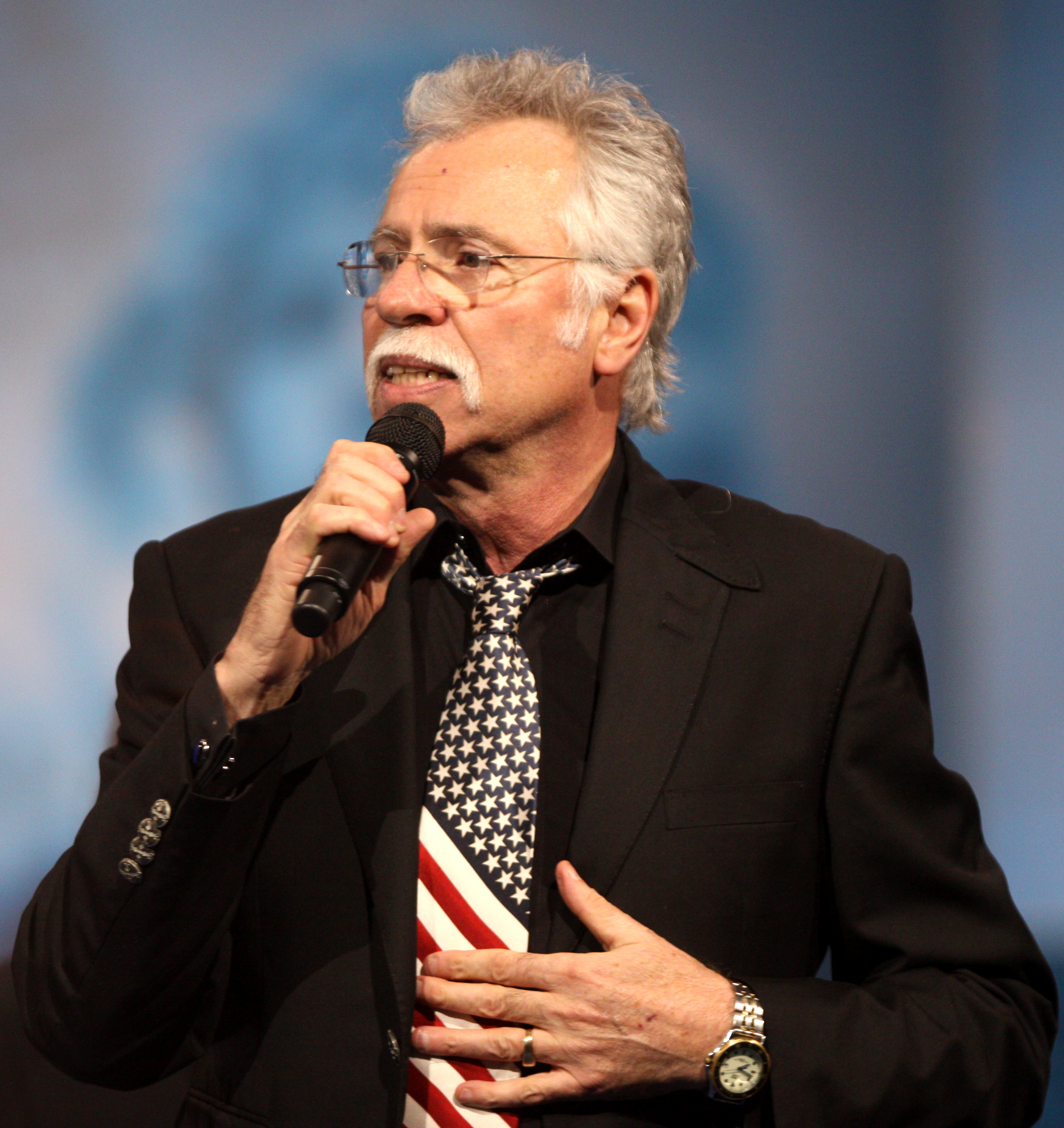 Joe Bonsall performing at the 2013 Conservative Political Action Conference (CPAC) in National Harbor, Maryland.